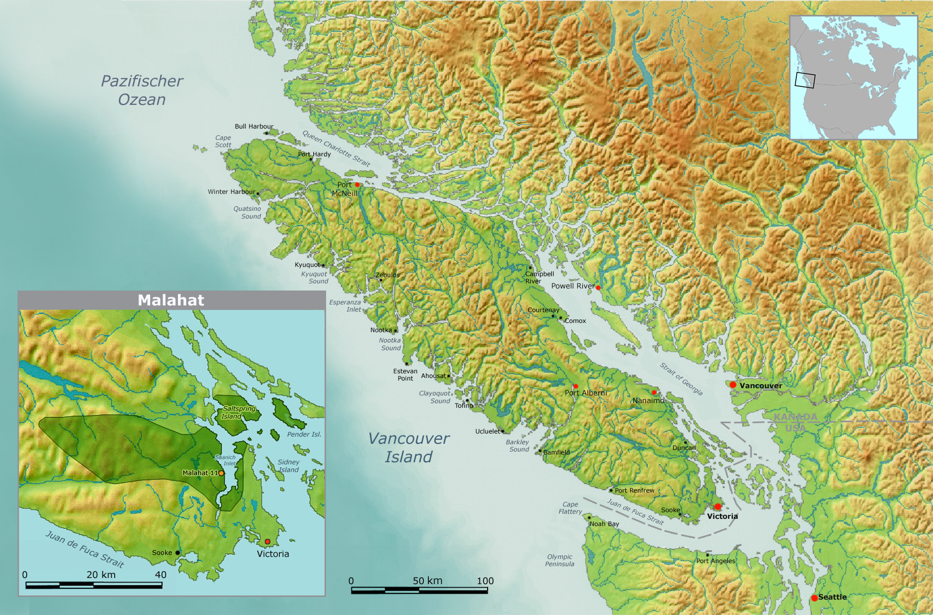 Map of Malahat traditional tribal territory.